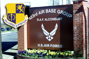 Main Entrance of RAF Alconbury, England